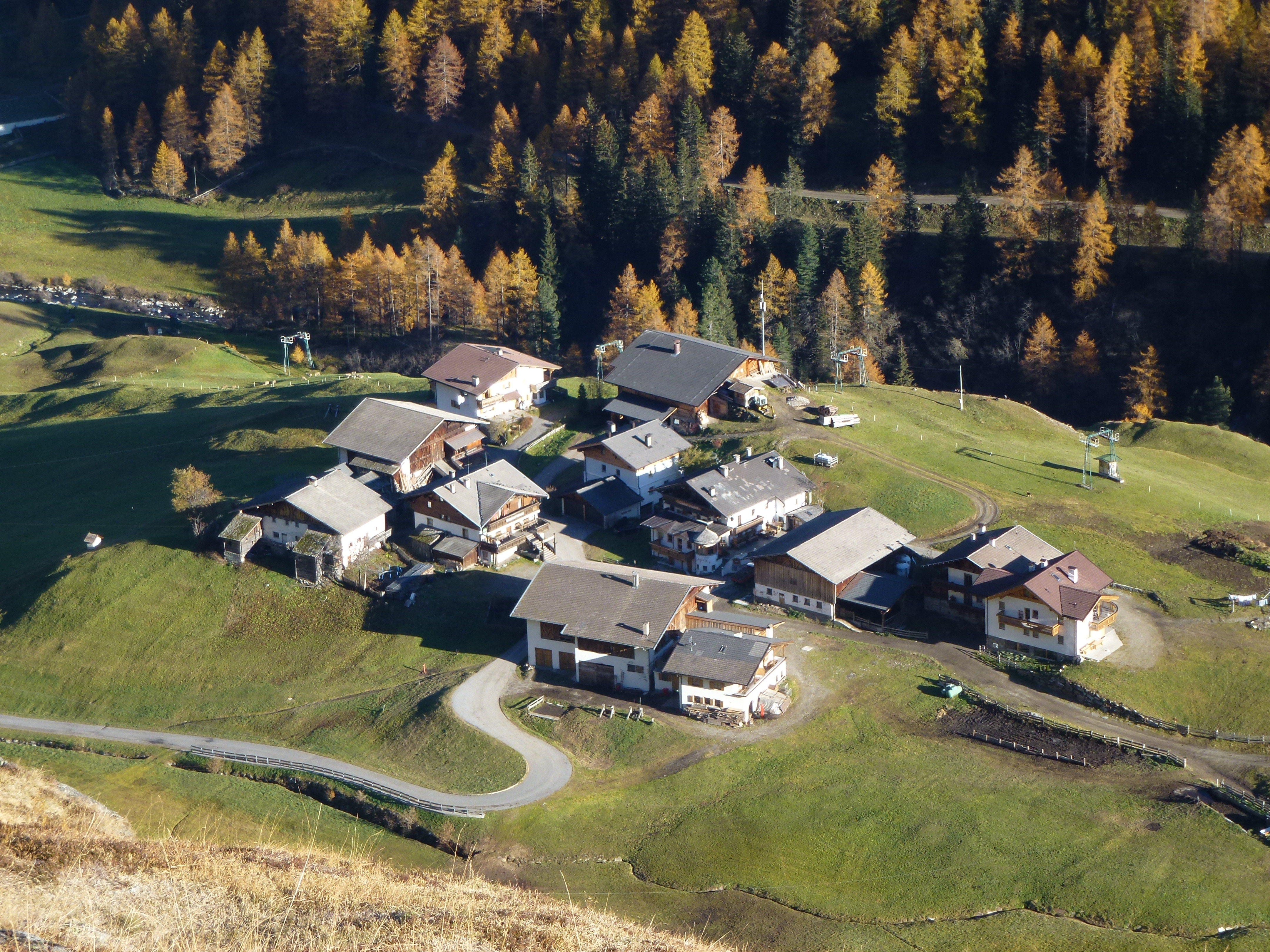 The part Zeppichl of the village Pfelders in the Italian alps